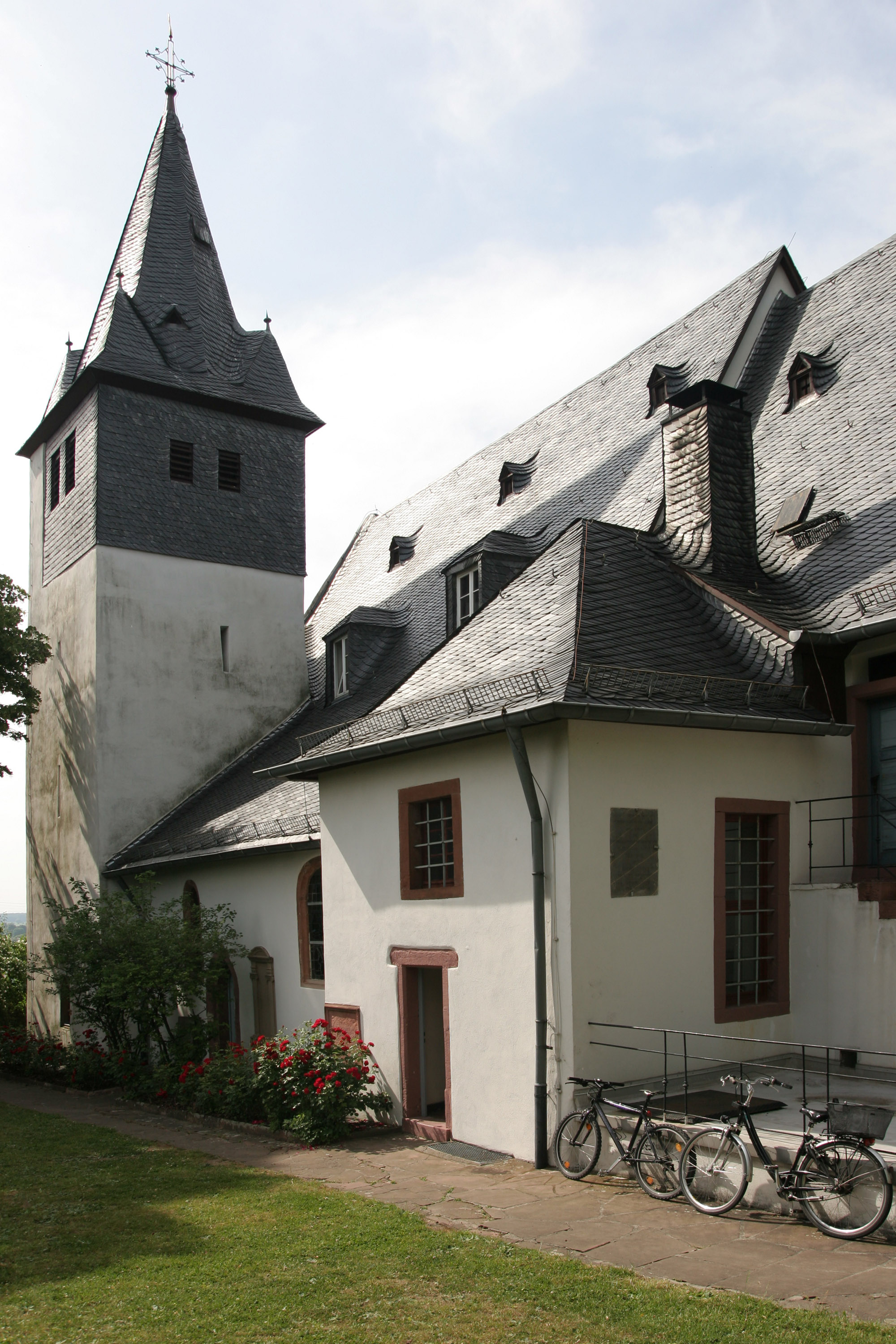 The protestant church of Zwingenberg (Hesse, Germany).